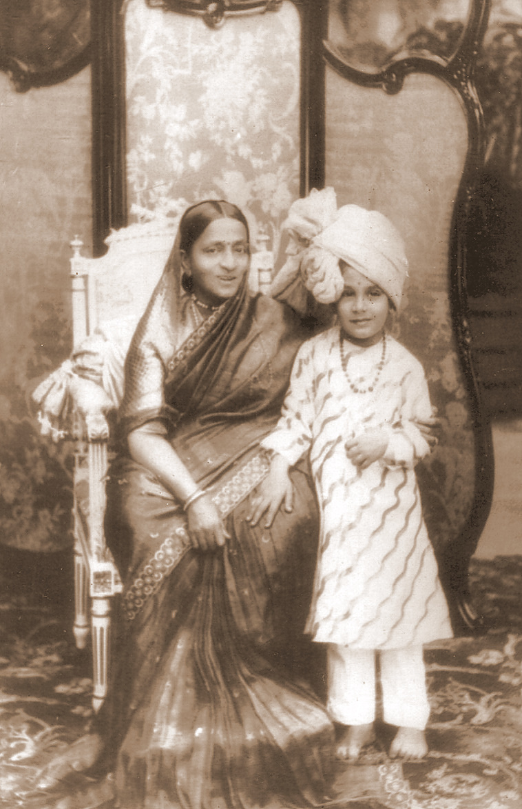 From personal collections